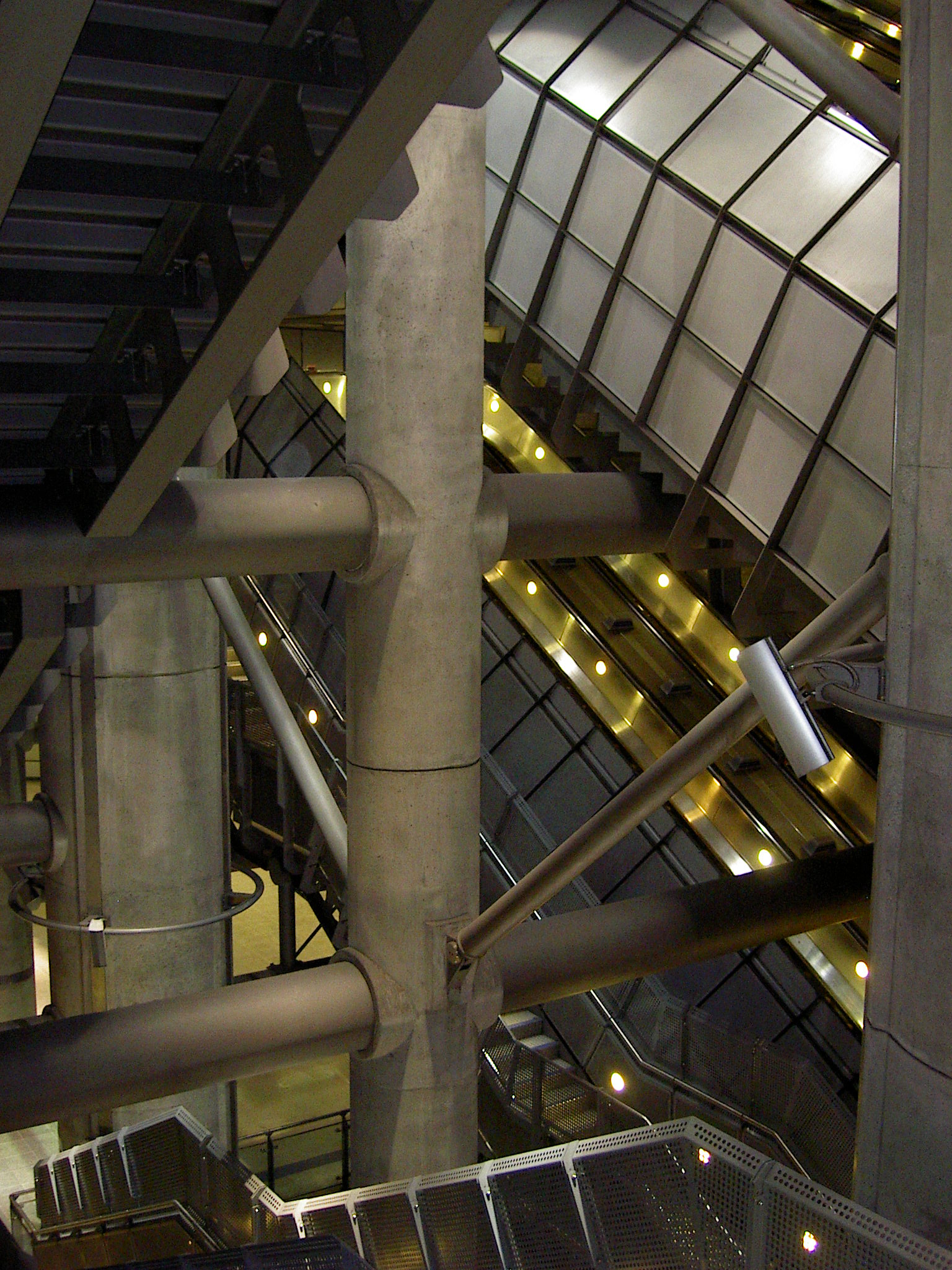 Westminster tube station - extensive structures are required because Portcullis House is above. Origninally uploaded by User:Rebroad